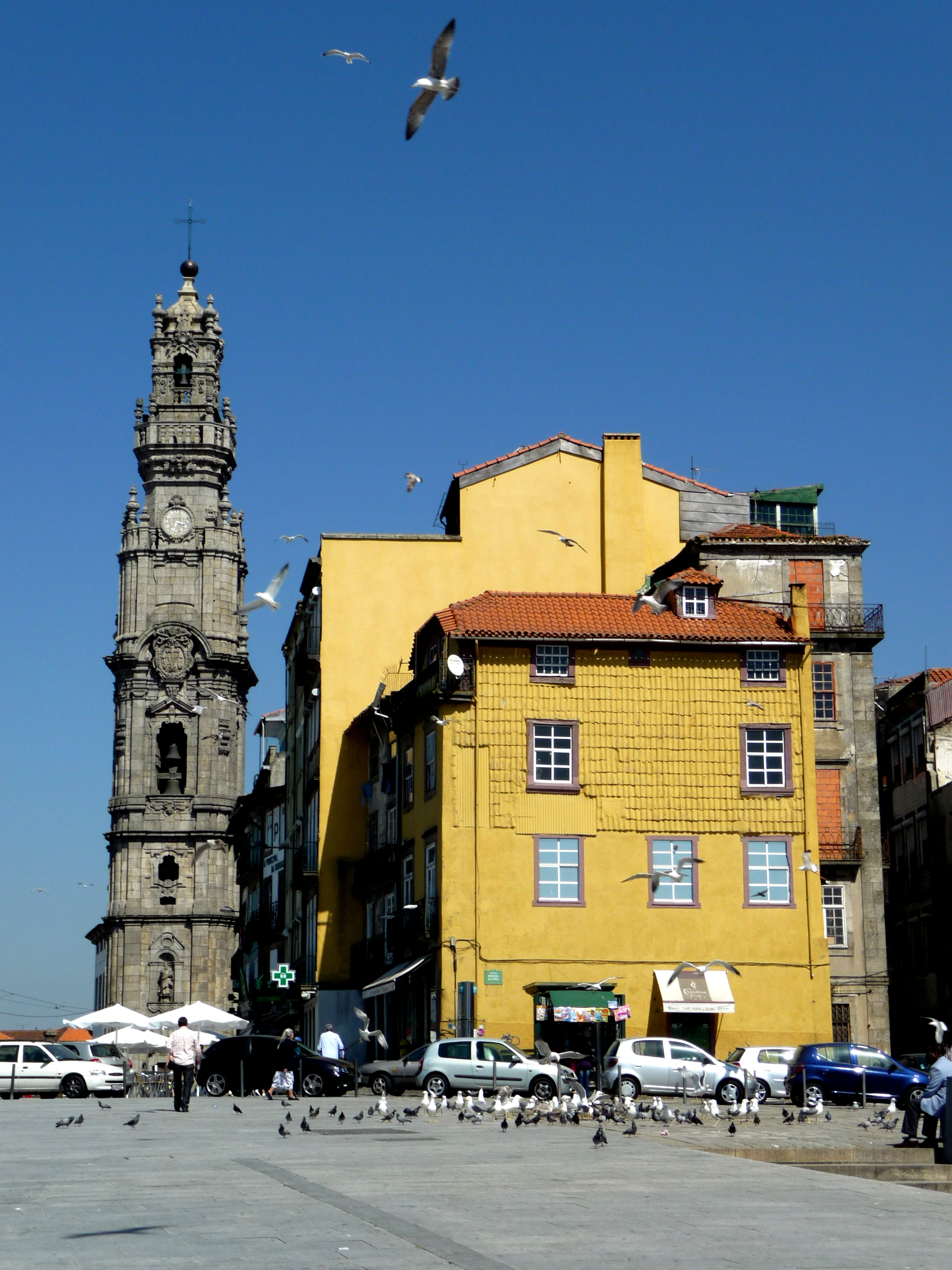 Clérigos Tower in Porto's Historic Center